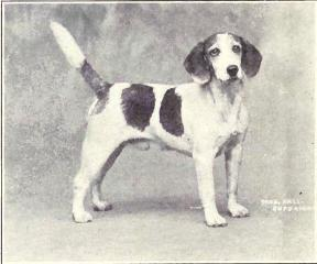 Beagle from 1915